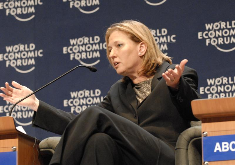 Tzipi Livni